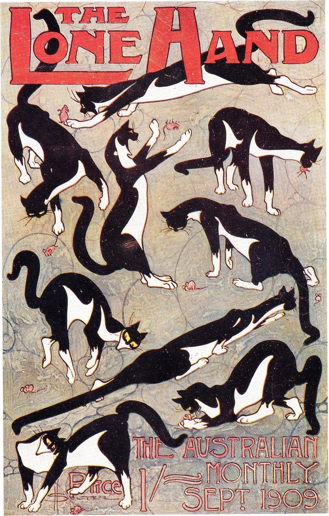 Cover of The Lone Hand (1909) designed by David Henry Souter (Australia, 1862-1935)